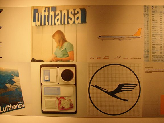 Lufthansa trade designed at HfG of Ulm